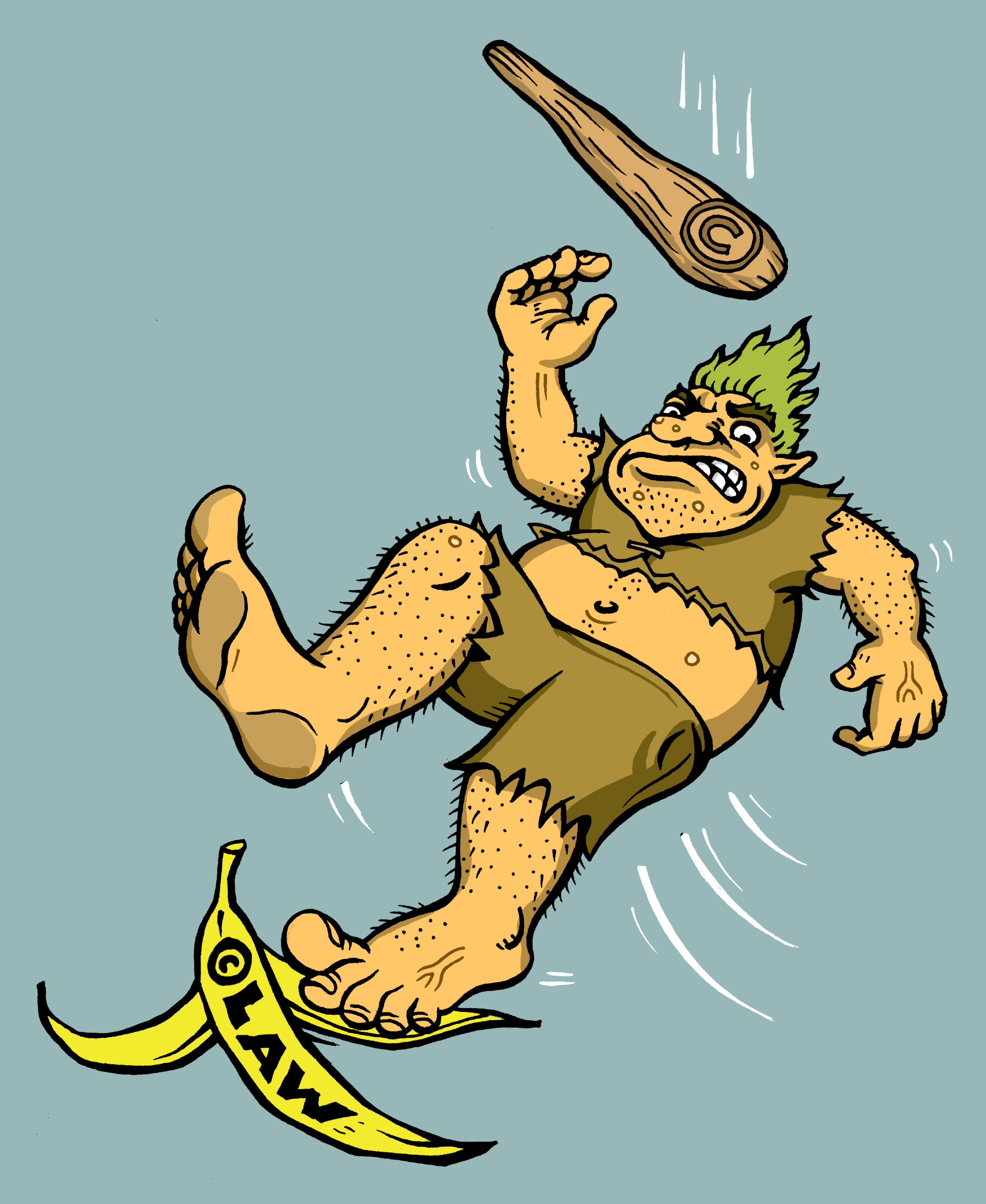 Electronic Frontier Foundation graphic created by EFF Senior Designer Hugh D'Andrade to illustrate EFF's work against patent trolls.